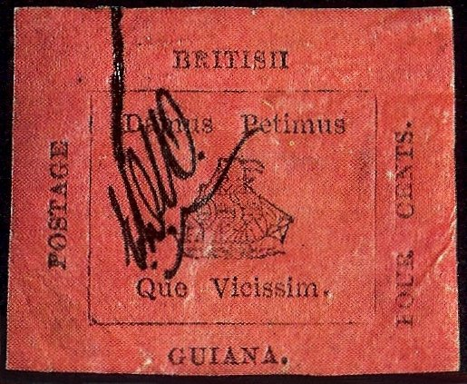 This is a scan of an image of a British Guiana postage stamp issued in 1856, and therefore in the public domain worldwide. The scan was taken from the image in James Mackay, The World of Classic Stamps (1972). Since the stamp is public domain, the two dimensional image of it also has no copyright claim and is public domain.